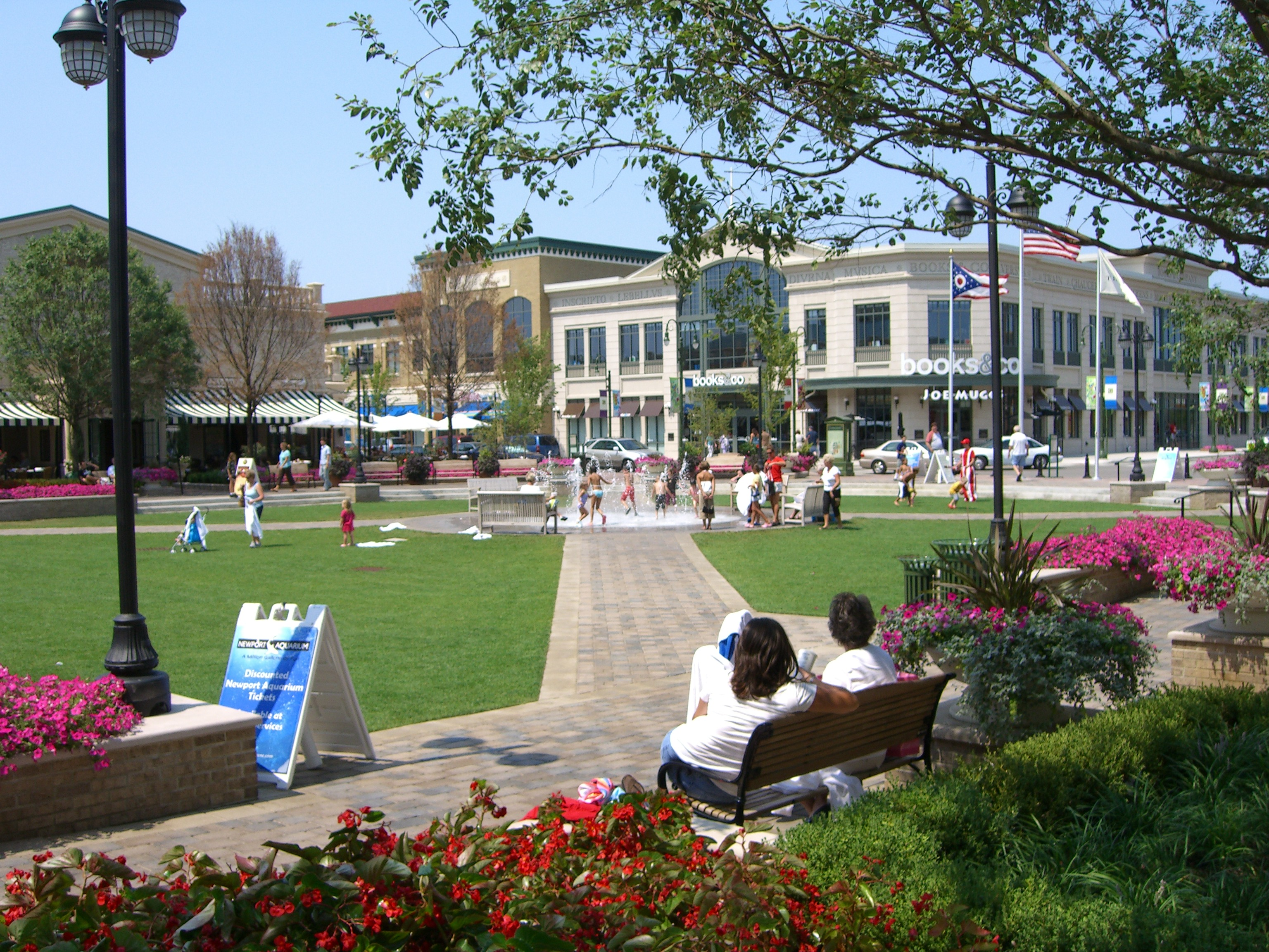 The Greene Towne Center in Spring located in Beavercreek, Ohio.